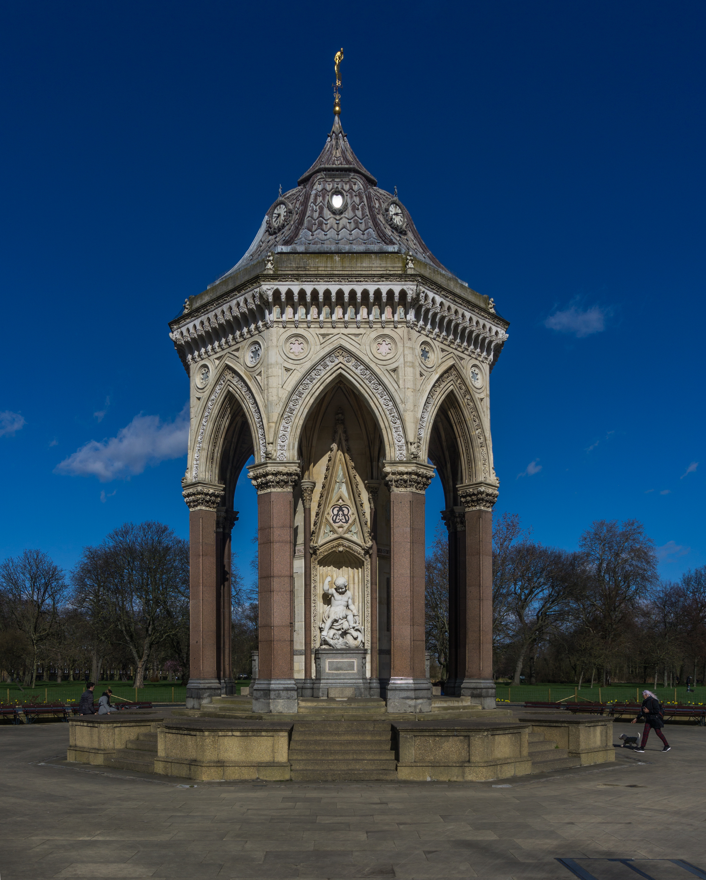 Baroness Burdett Coutts Drinking Fountain - Victoria Park - London - South West View